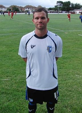 Adam Birchall poses at pitchside shortly before his debut for Gillingham F.C. against Ramsgate F.C. I took this picture myself